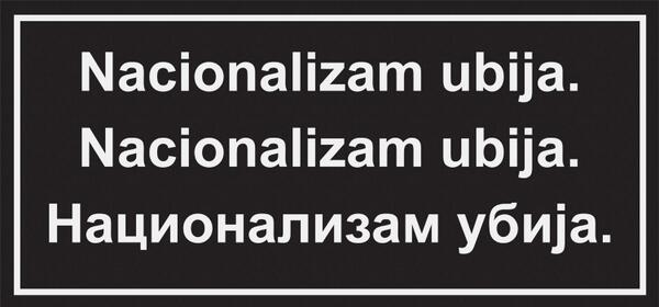 Nacionalizam ubija